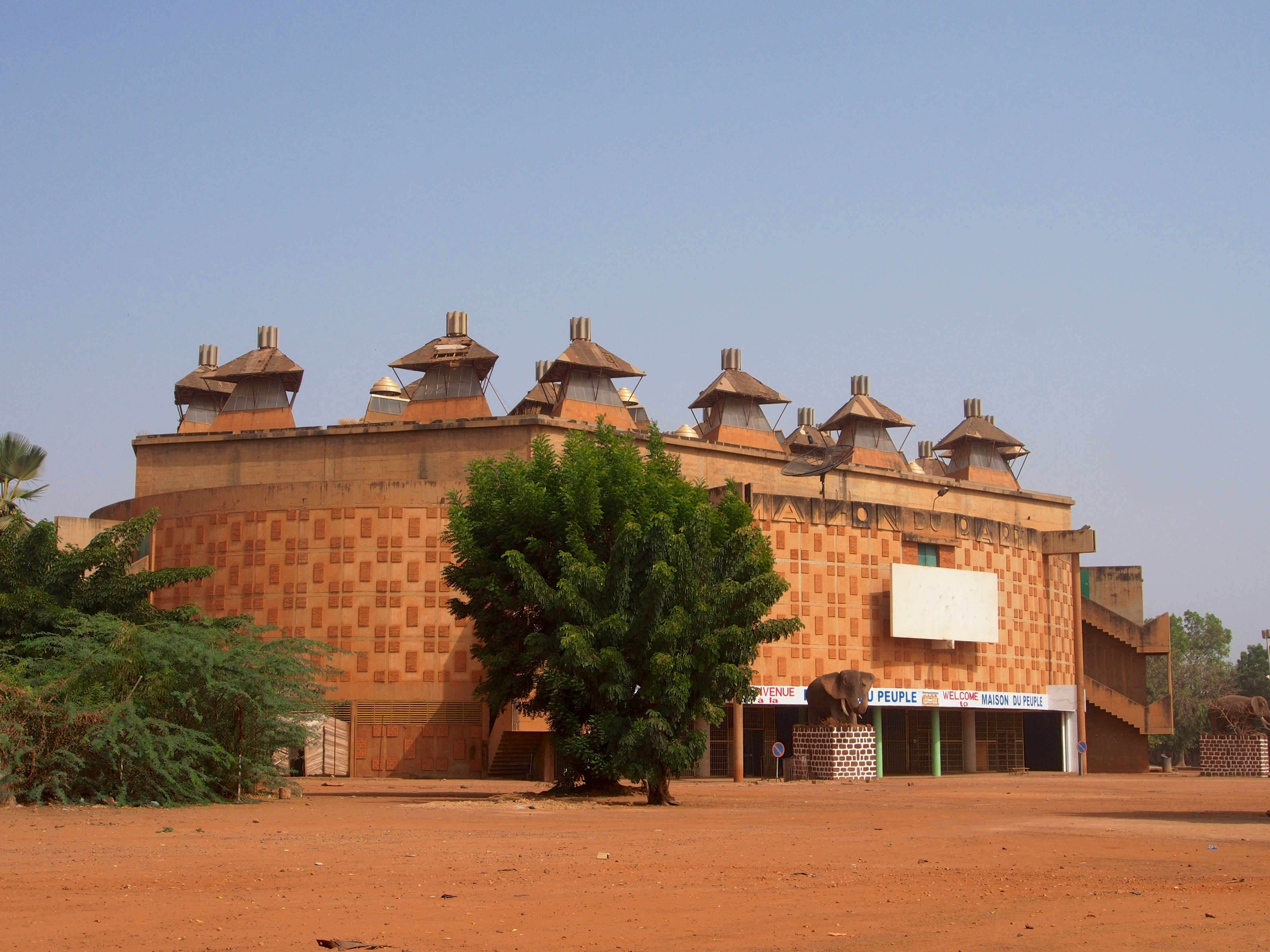 House of the people, Ouagadougou, Burkina Faso